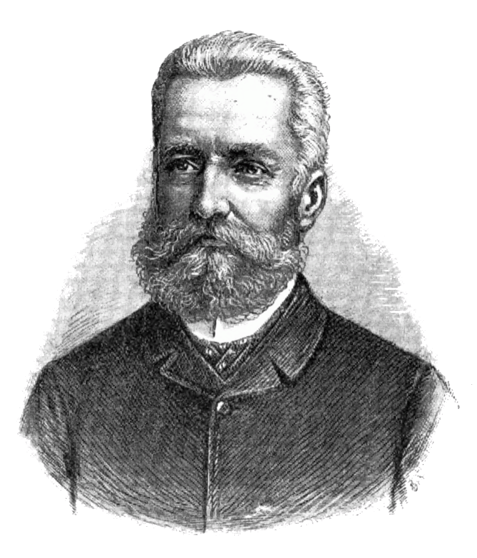 Irnvan Tski (1819–1910), Croatian writer and translator